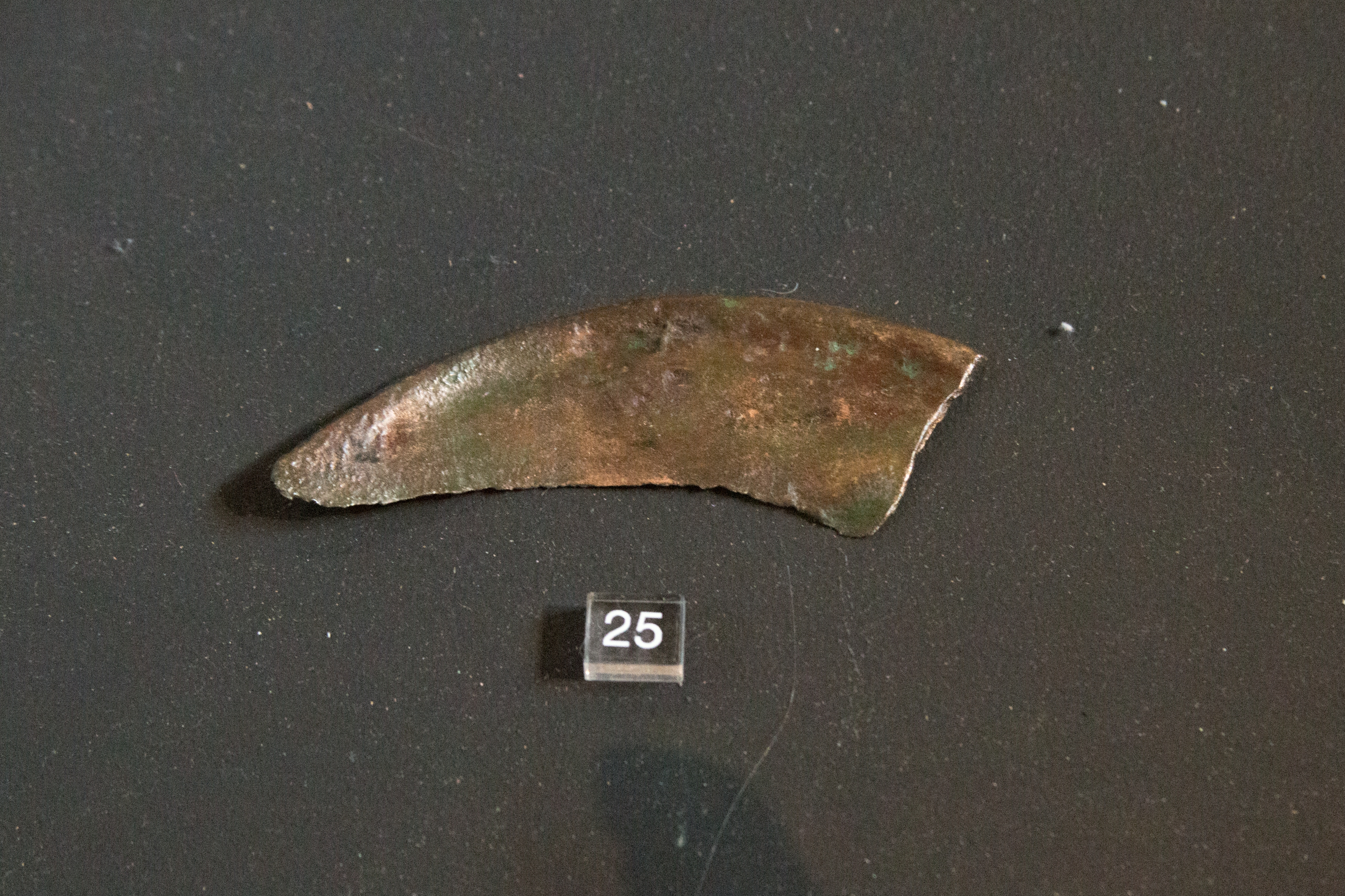 Sickle. Earlier Bronze Age, Věteřov culture, 1550-1450 BC. Originaly from Olomouc, Saint Wenceslas Hill. National Monument Institute, Olomouc. Collections of Archbishopric Museum in Olomouc.